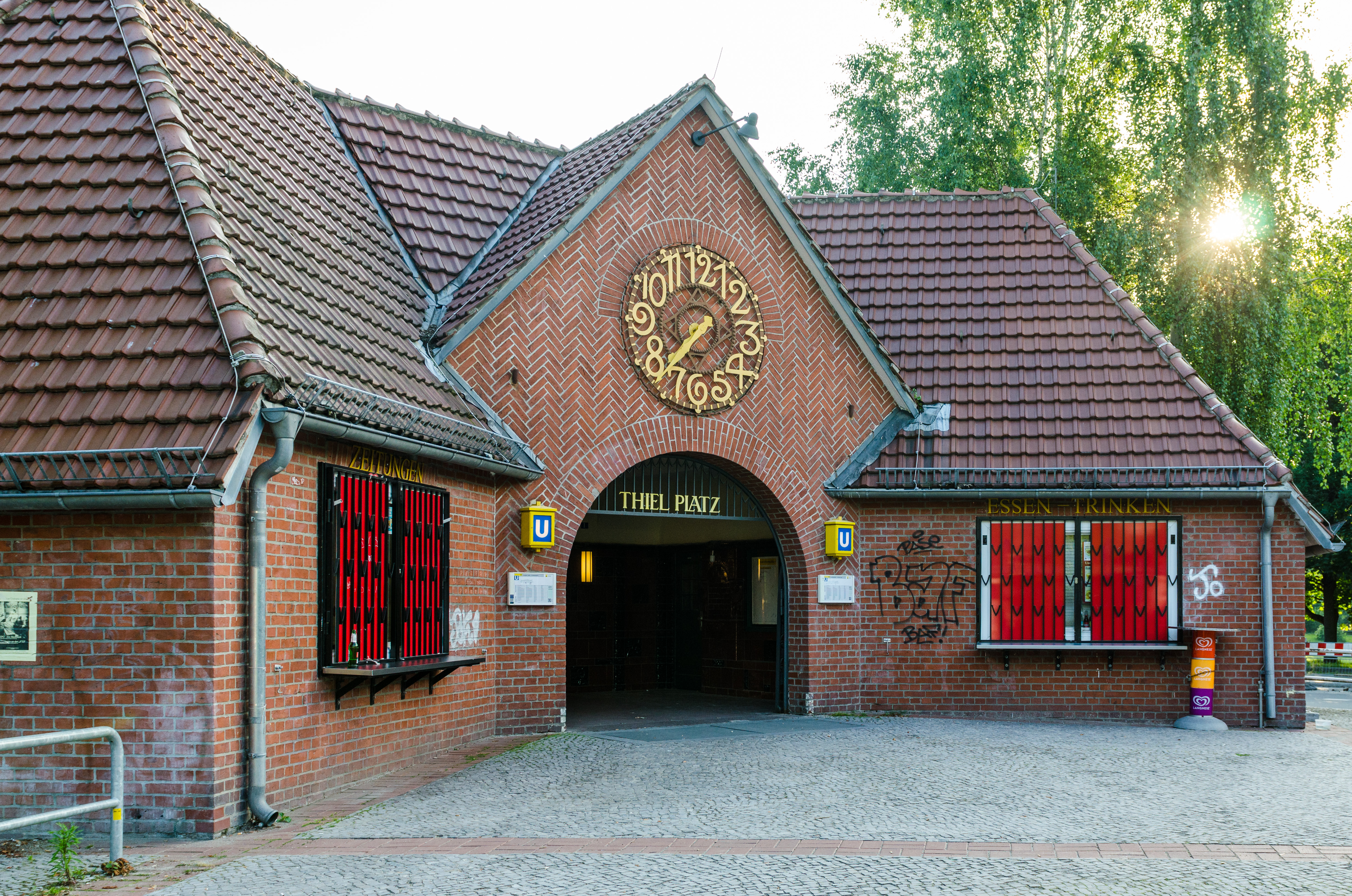 One of the two entry buildings to the Berlin subway station Thielplatz in Berlin-Dahlem